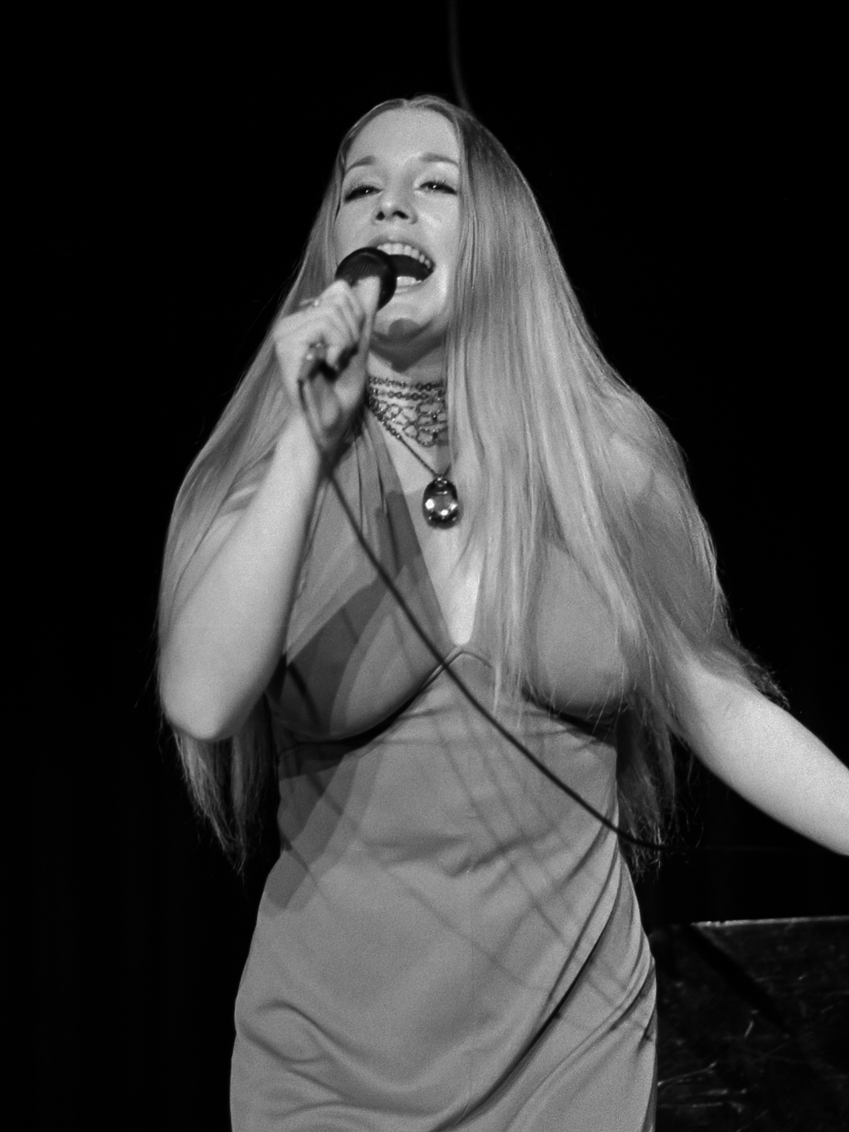 Lynn Carey on 13 September 1972.